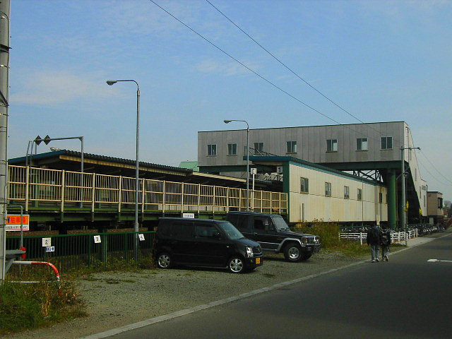 Takuhoku Station, Sapporo, Japan. Takuhoku 5jō 3chōme, Kita Ward, Sapporo, Japan. From the street of the south of the station, toward east. The station building is on the other side. We see the platform and the stairway.